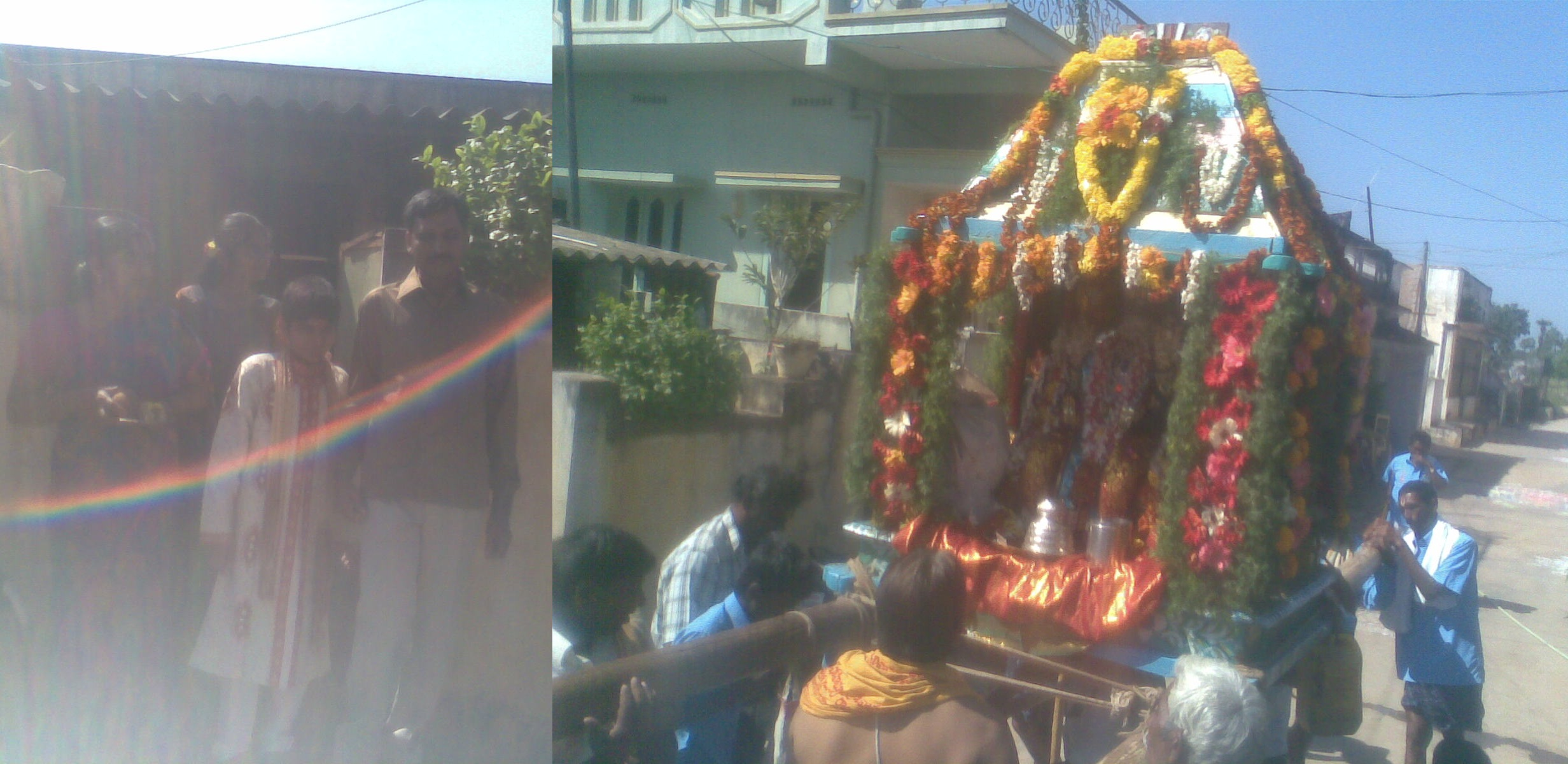 Festival of Makar Sankranti